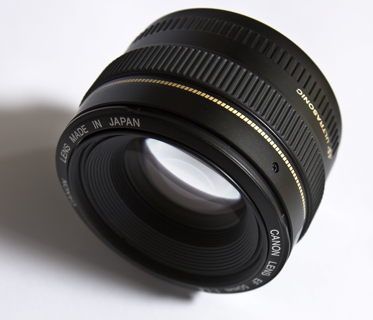 This image shows a "Canon EF 50mm f1.4 USM" lens.